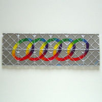 A Rubik's Master Magic in it's starting phase